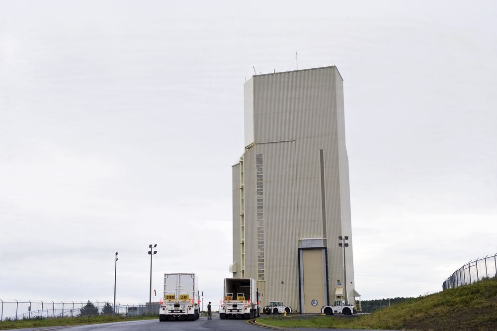 Two Type 2 transport vehicles, one loaded with a Minotaur IV stage and one unloaded, sit in front of the launch facility of the Kodiak Launch Complex, Kodiak Island, Alaska. The Minotaur IV space launch vehicle is one of three missions of the 1st Air and Space Test Squadron that provides additional launch solutions for U.S. government-sponsored spacecraft.